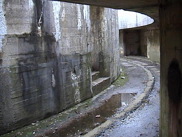 Bunker of the Hanstholm, Bunker Museum, Denmark.